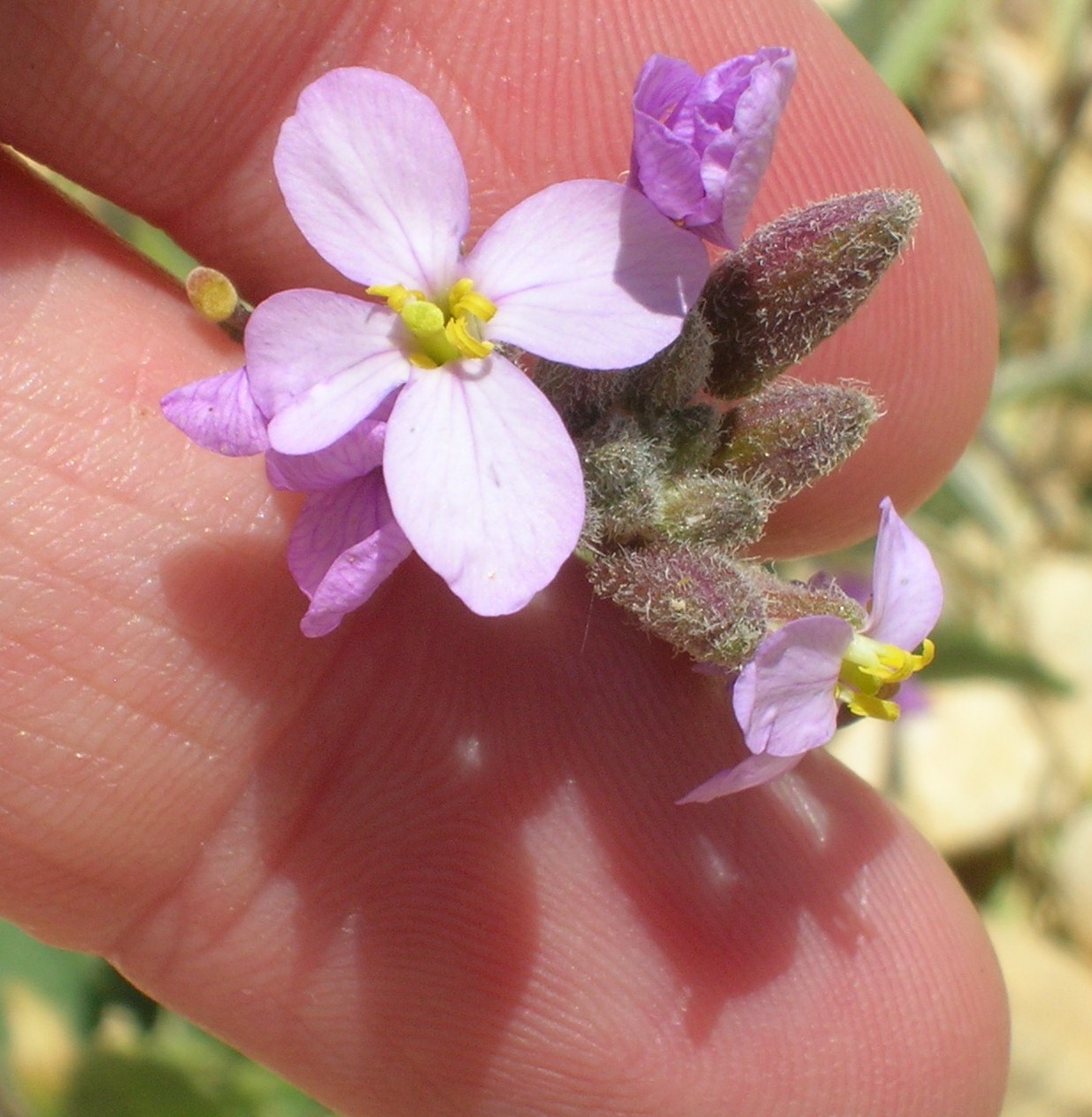 I can not figure this one out.... but thanks to some help from aspidoscelis I now know it is in Brassicaceae Negev